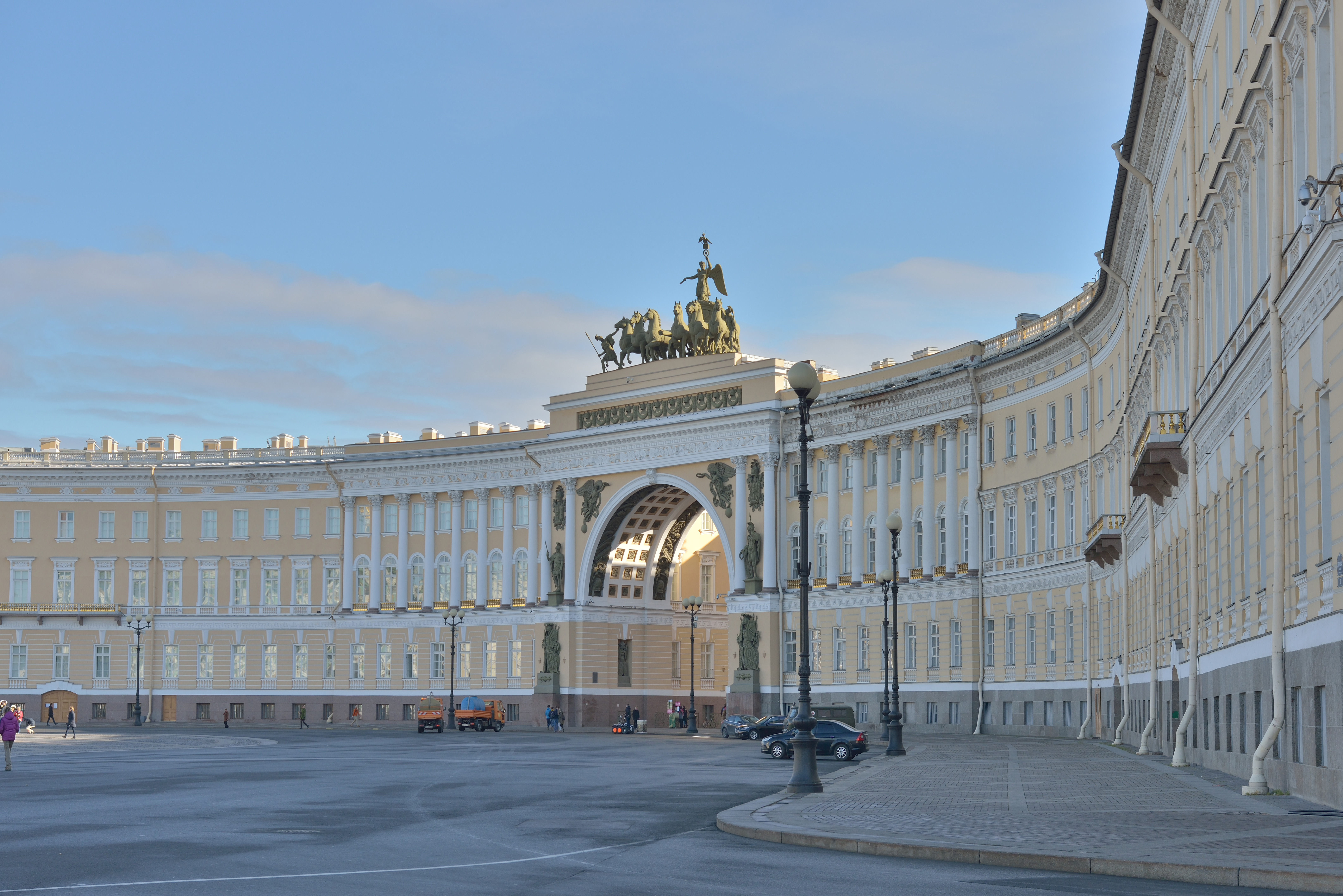 General Staff Building on Palace Square in Saint Petersburg